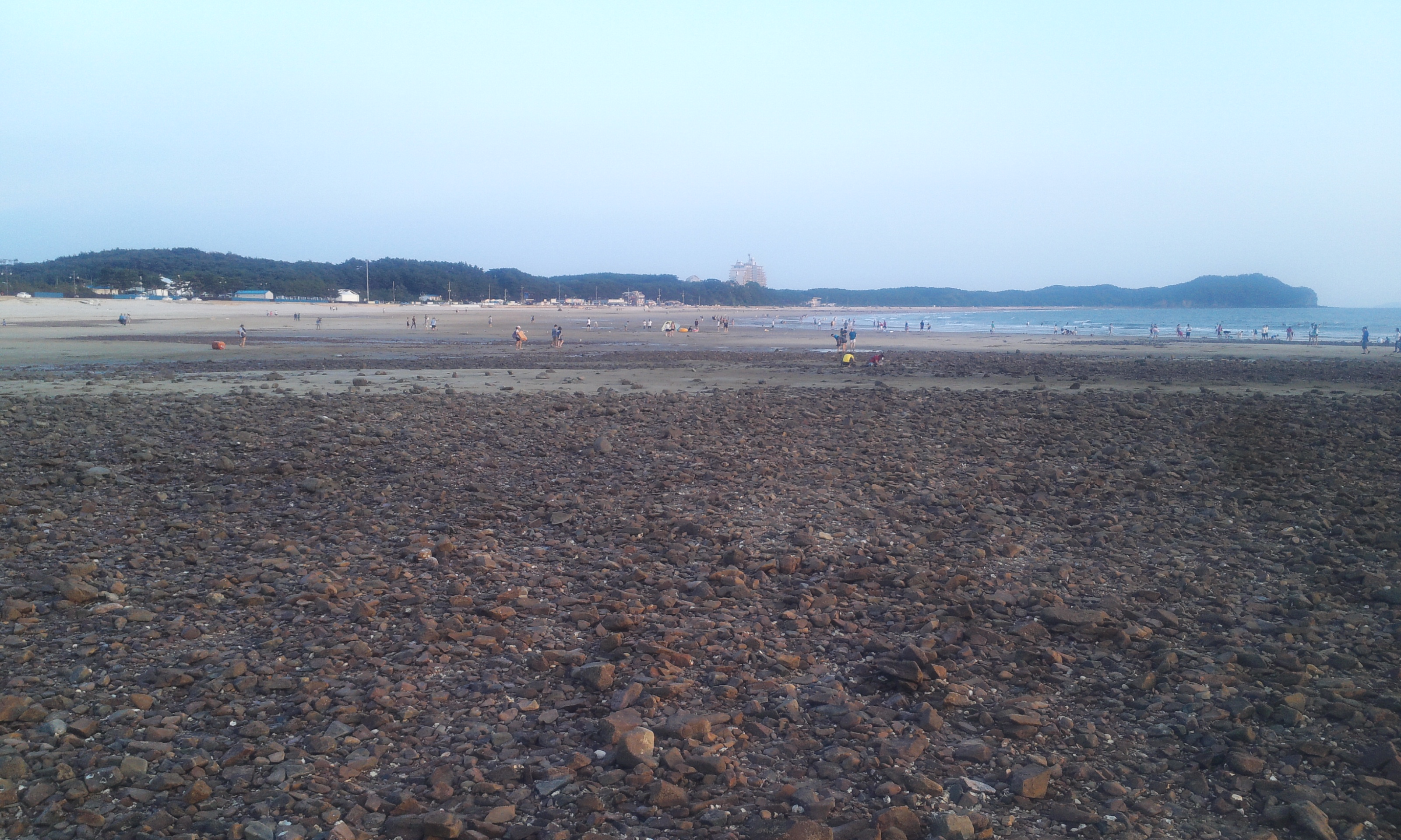 This picture was taken Kkotji Beach in Buan on August 31th, 2013